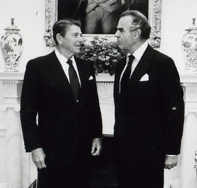 Ronald Reagan in Oval Office in 1982 with Oliver Wright